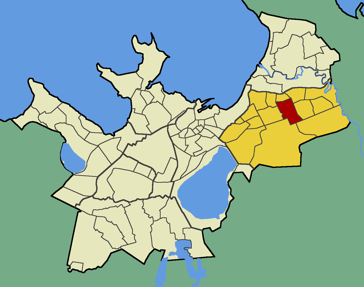 Map of Tallinn (Estonia) with borders of the quarters, Lasnamäe district and Tondiraba quarter emphasised